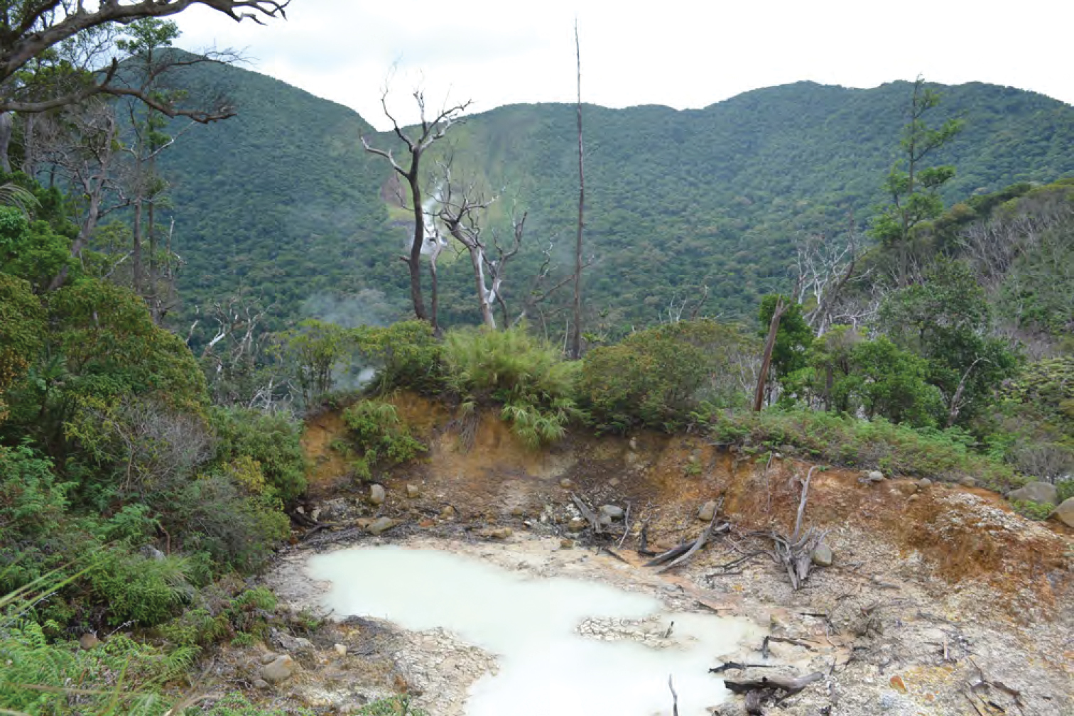 Volcanic vent on the forested floor of the Mt. Cagua crater. Photo: LJW.